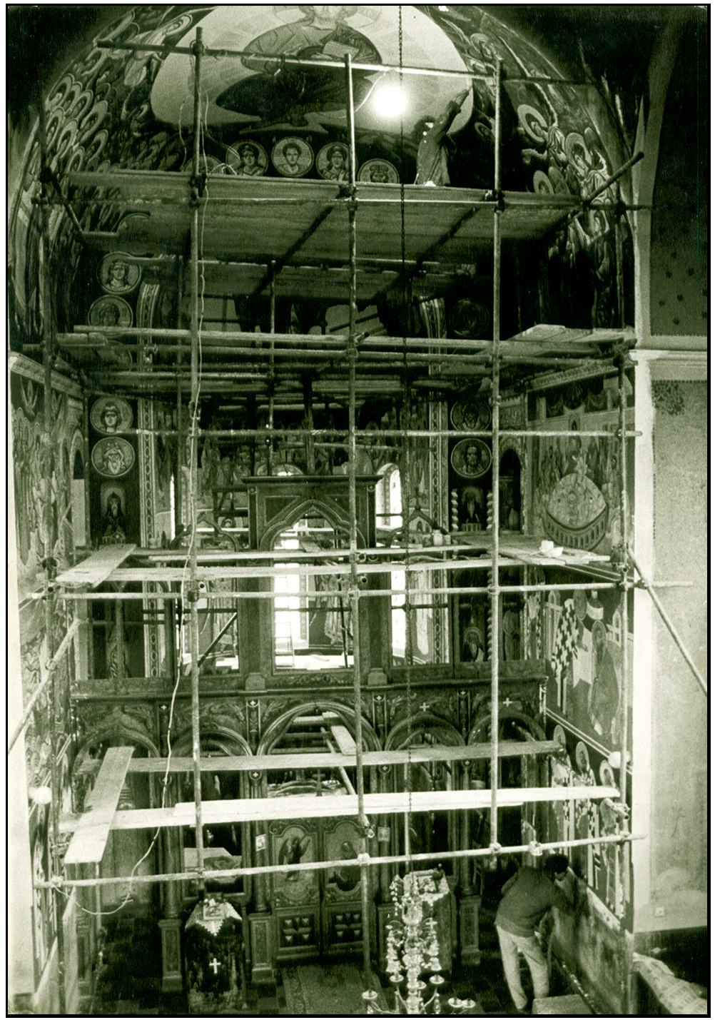 Scafolding for fresco painting